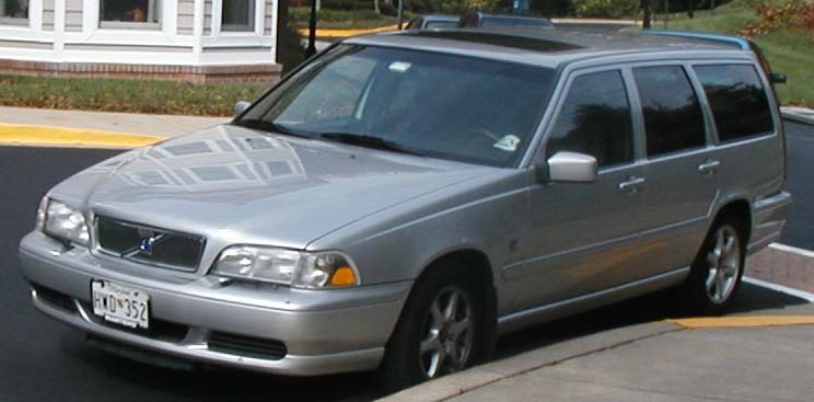 1998-2001 Volvo V70 photographed in USA.